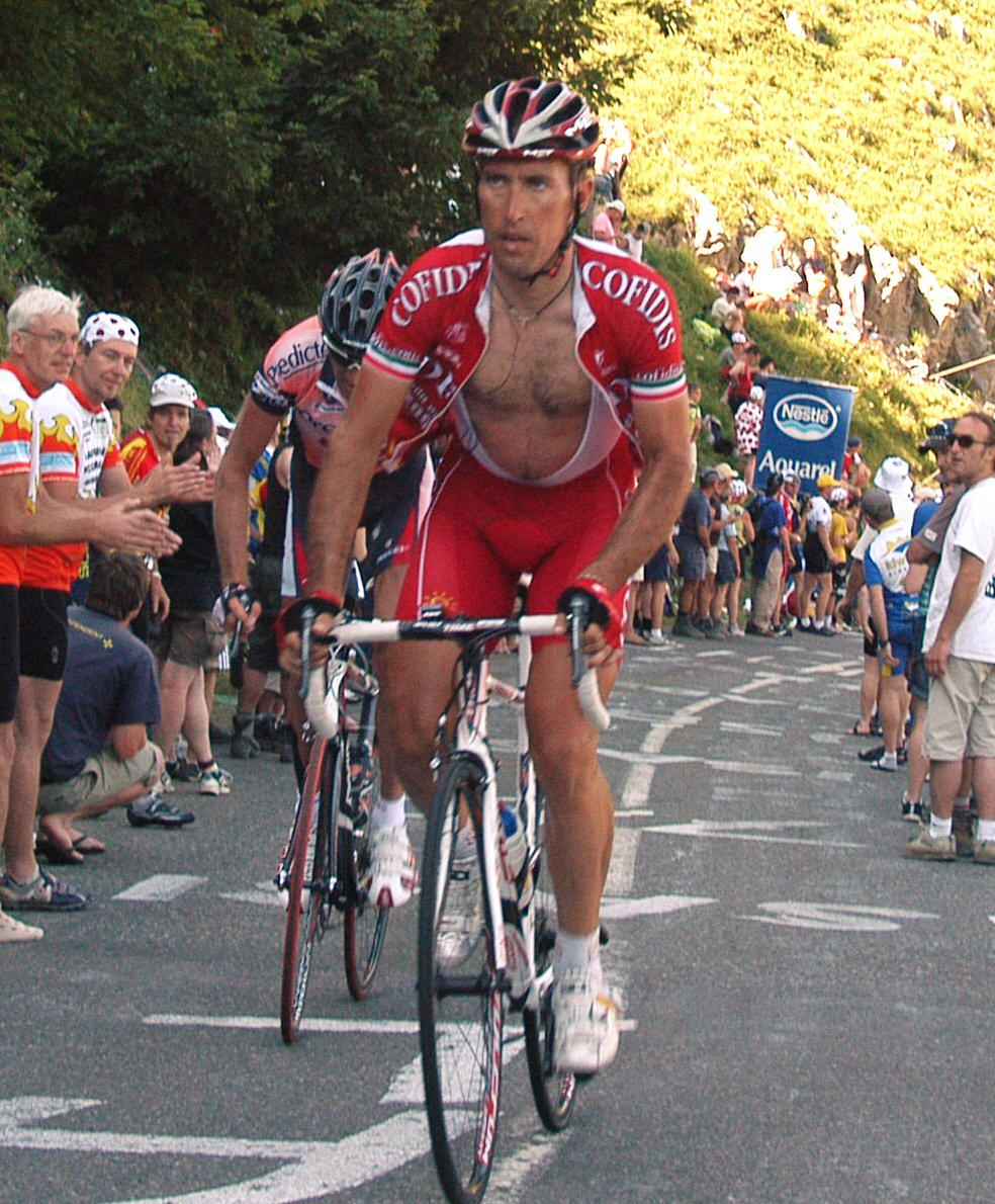 Cristian Moreni at stage 7 of the Tour de France 2007 on the Col de la Colombière.